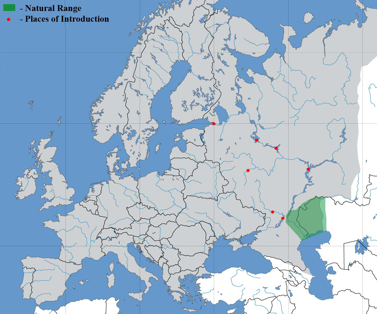 The range of the Caspian tubenose goby (Proterorhinus semipellucidus) according to Neilson M.E., Stepien C.A. (2009) Evolution and phylogeography of the tubenose goby genus Proterorhinus (Gobiidae: Teleostei): evidence for new cryptic species. Biological Journal of the Linnean Society, 96(3): 664–684.